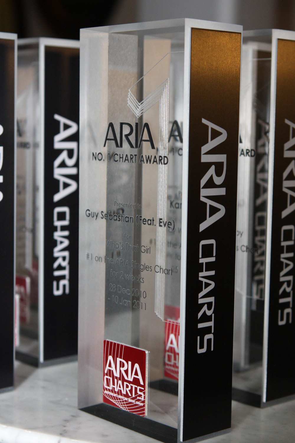 ARIA Chart Award for No. 1 Single by Guy Sebastian featuring Eve, "Who's That Girl". Photo taken on 10 August 2012 at the Ivy Bar in George Street, Sydney.